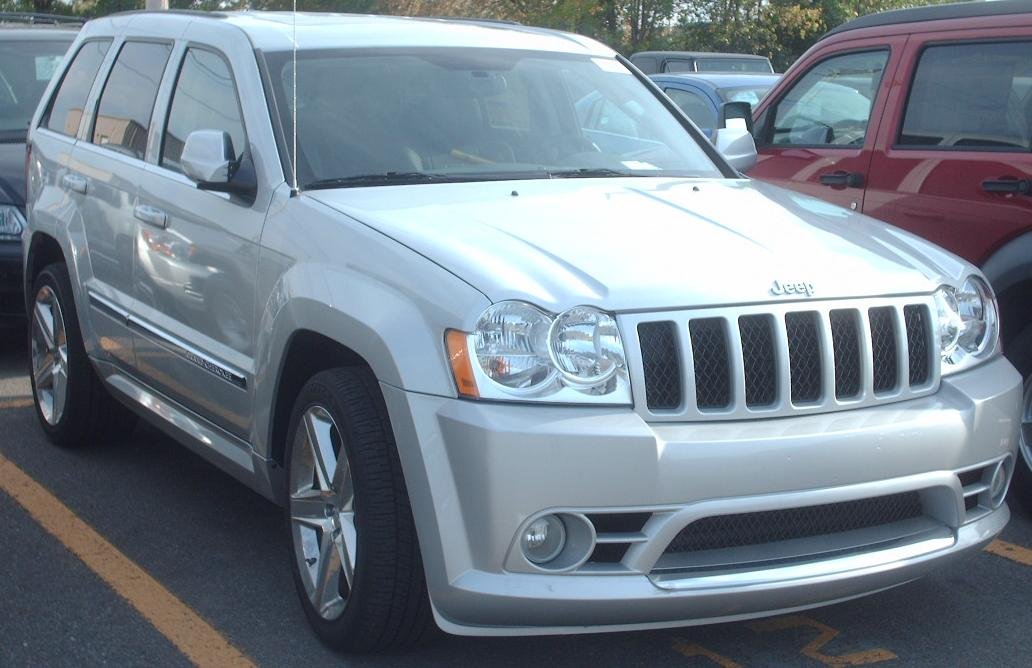 2008 MY Jeep Grand Cherokee photographed in Montreal, Quebec, Canada.